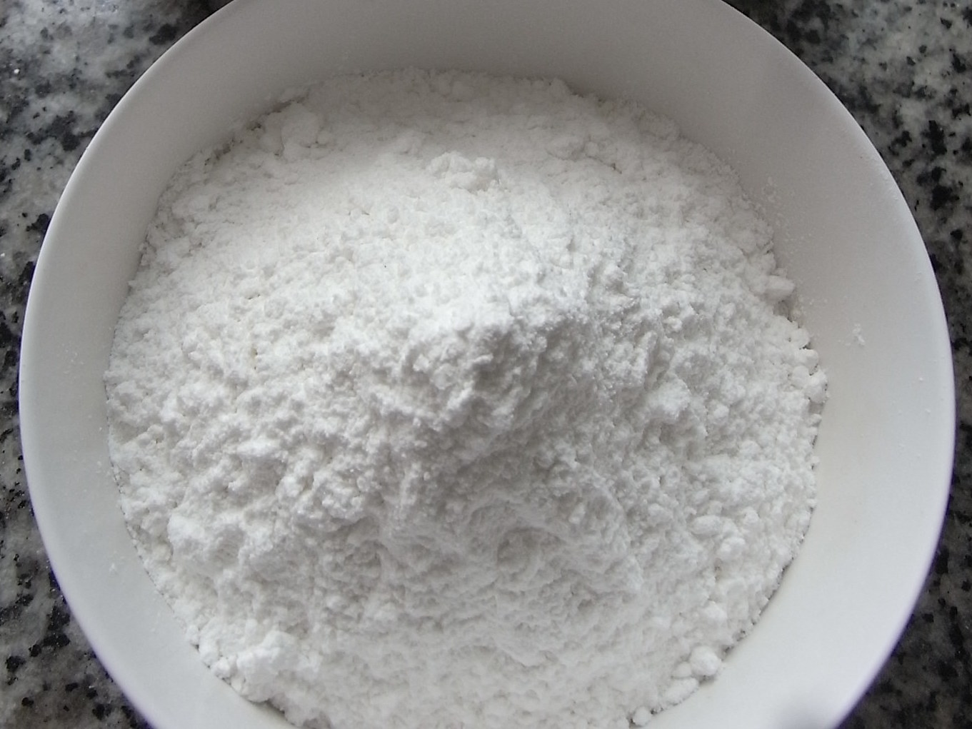 Glutinous rice flour.jpg